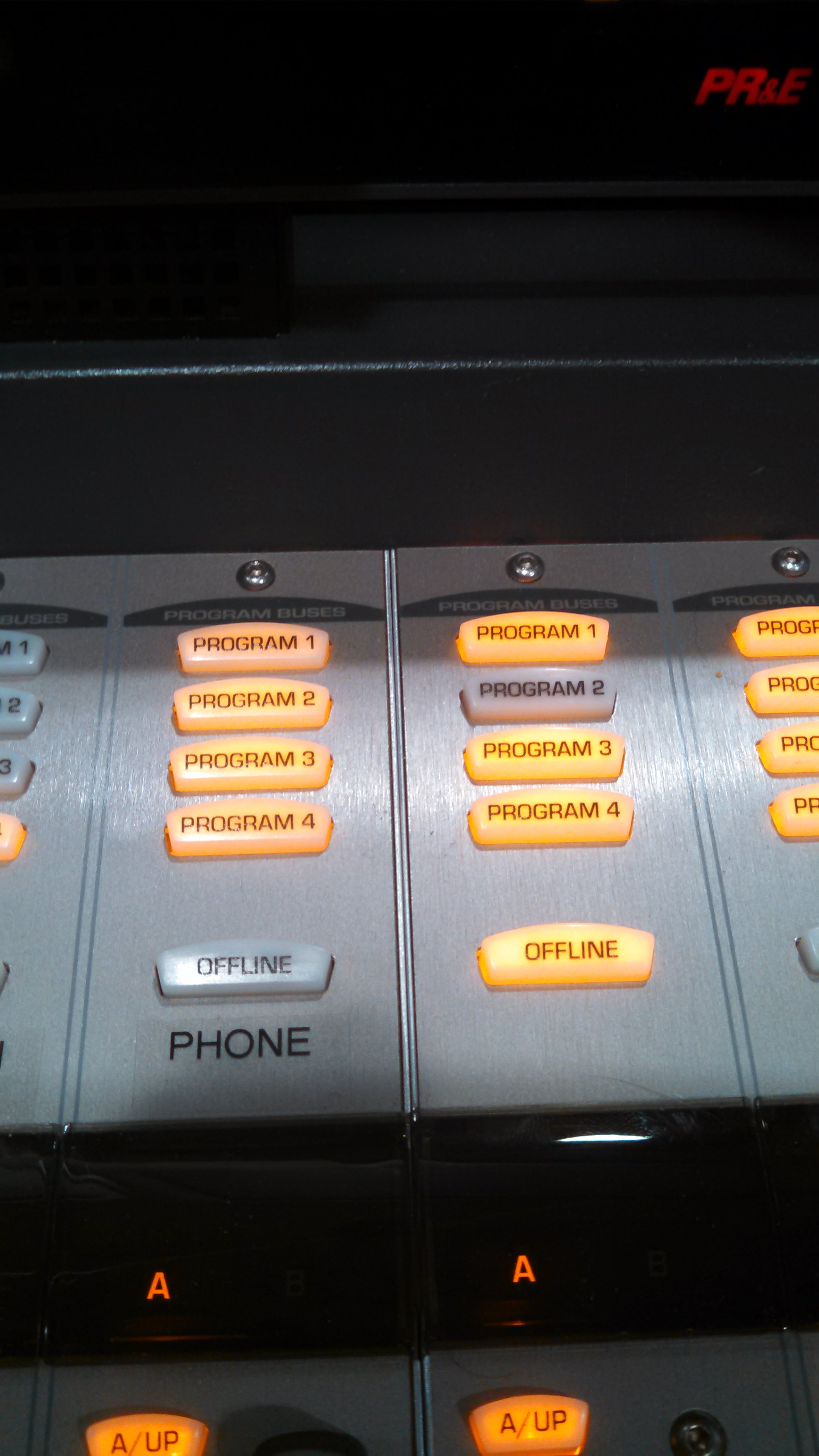 Programming channels on a radio sound board.